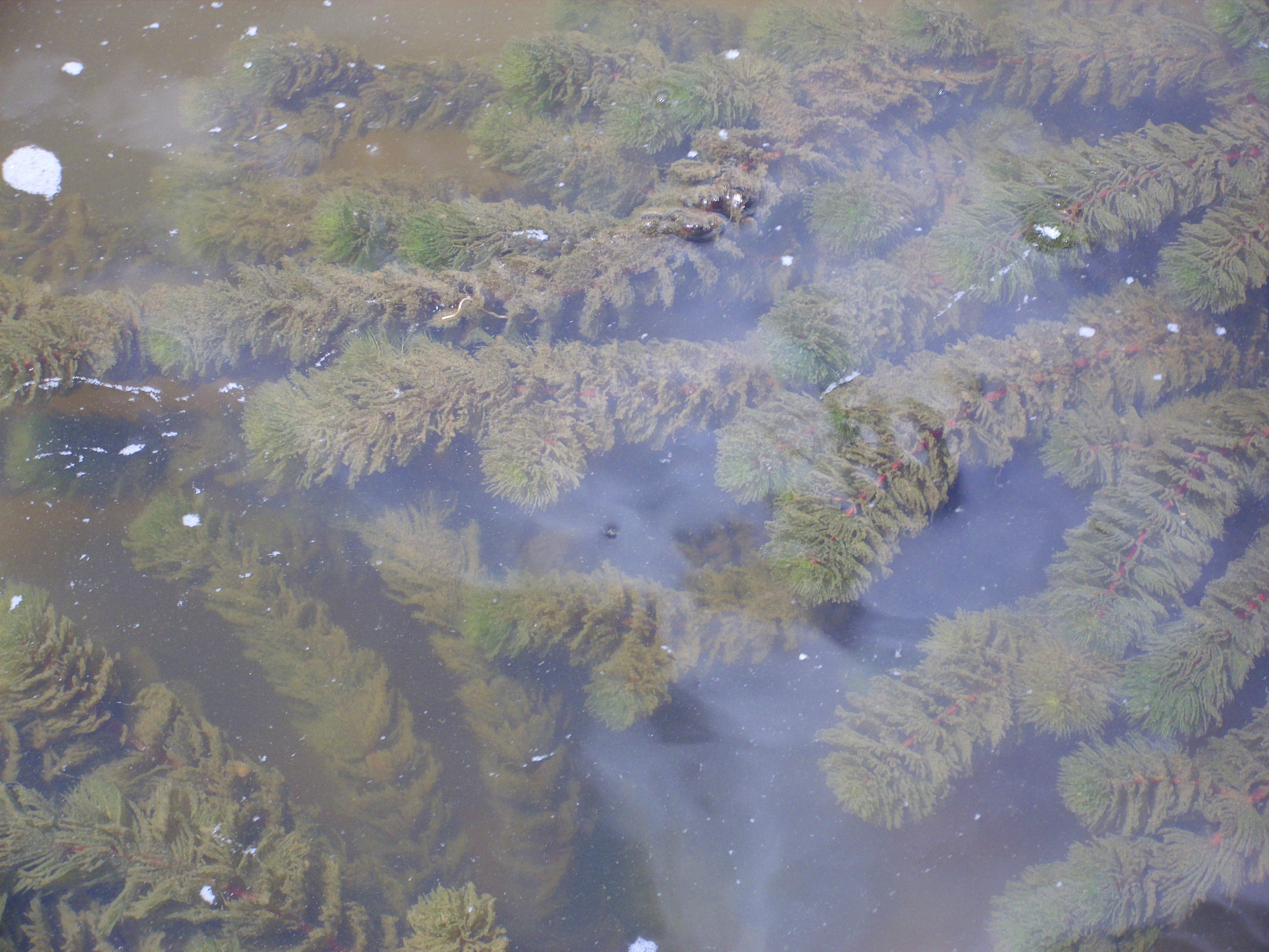 Ceratophyllum demersum habit, Sierra Madrona, Spain